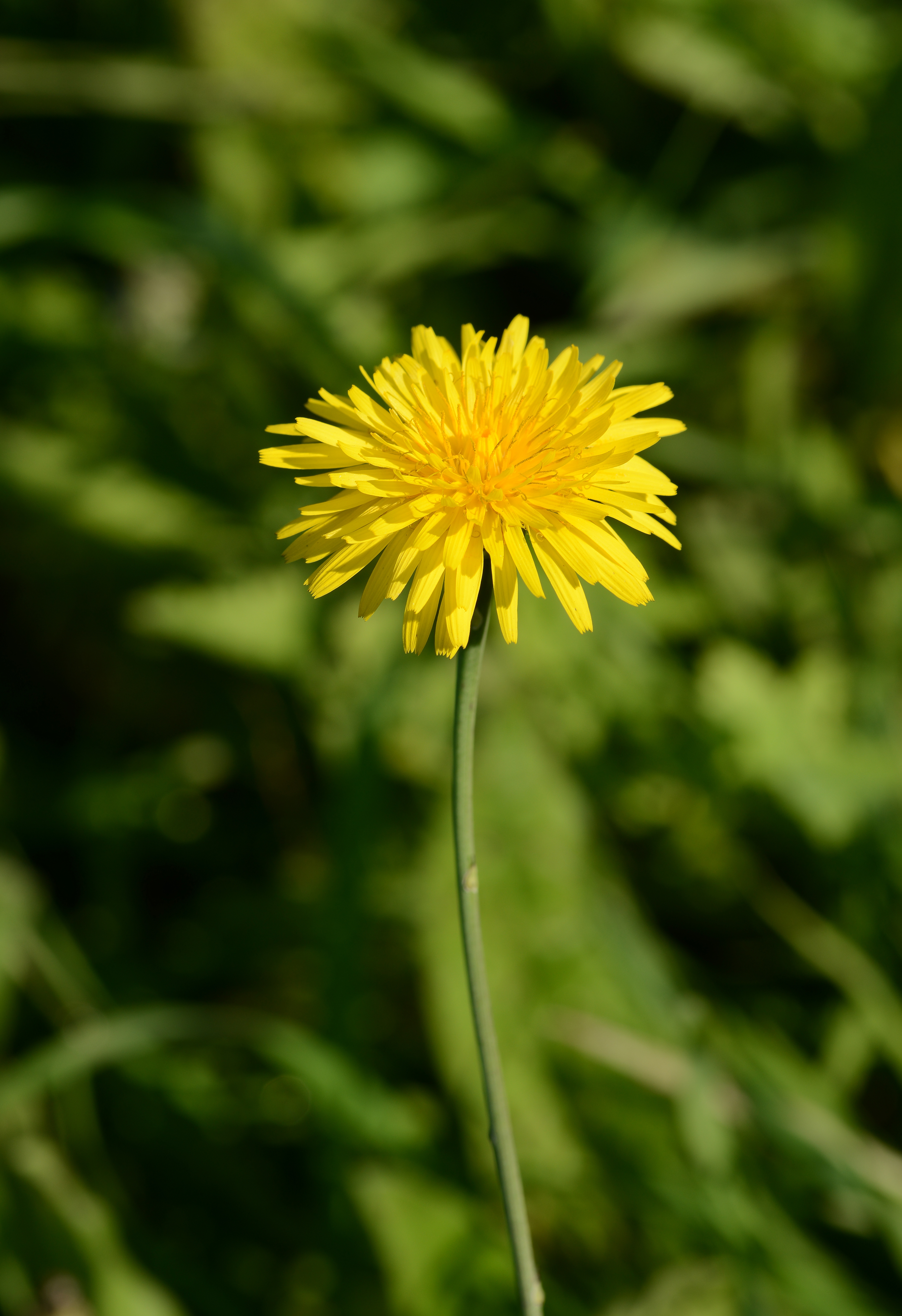 Flower of a Hieracium sp.